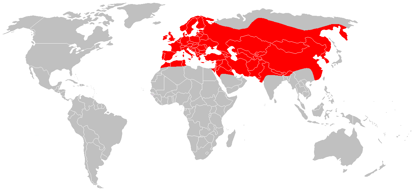 The Distribution of the European Otter based on File:Leefgebied otter.jpg